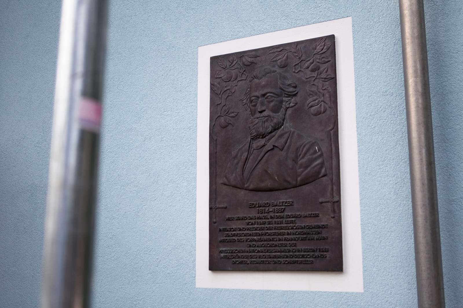 Eduard Baltzer plaque in Nordhausen. – The picture was first published in b/w in the book "Die Südharzreise" ("The South Harz Journey"), by SuKuLTuR, Berlin, in 2010. The entire book was released under CC by-nc-sa 3.0, all pictures have been re-licensed under CC by-sa, see user page for details. – Picture taken with a Canon EOS 5D Mark II.